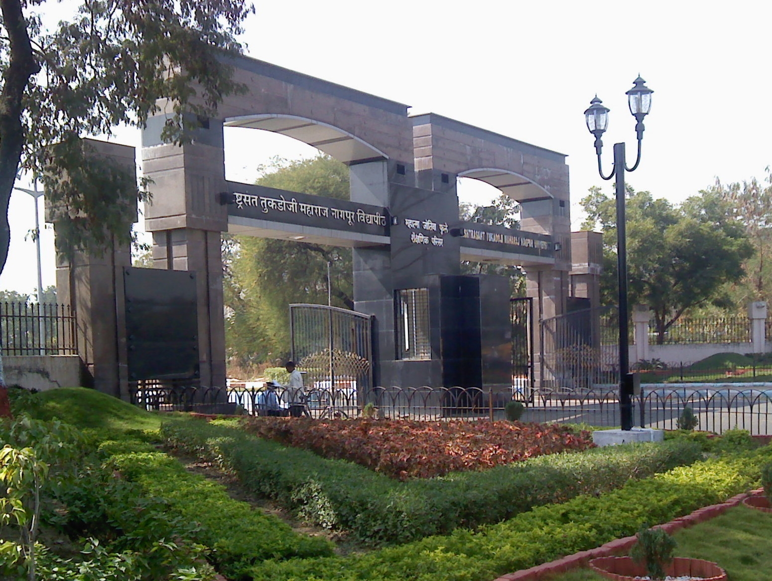 The main gate of Rashtrasant Tukdoji Maharaj Nagpur University educational campus.